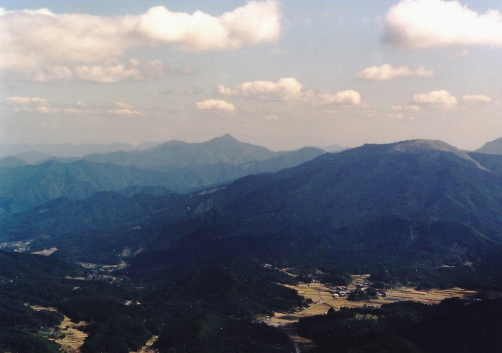 Mount Tsubone seen from Mount Kuroso in Matsusaka, Mie prefecture, Japan.